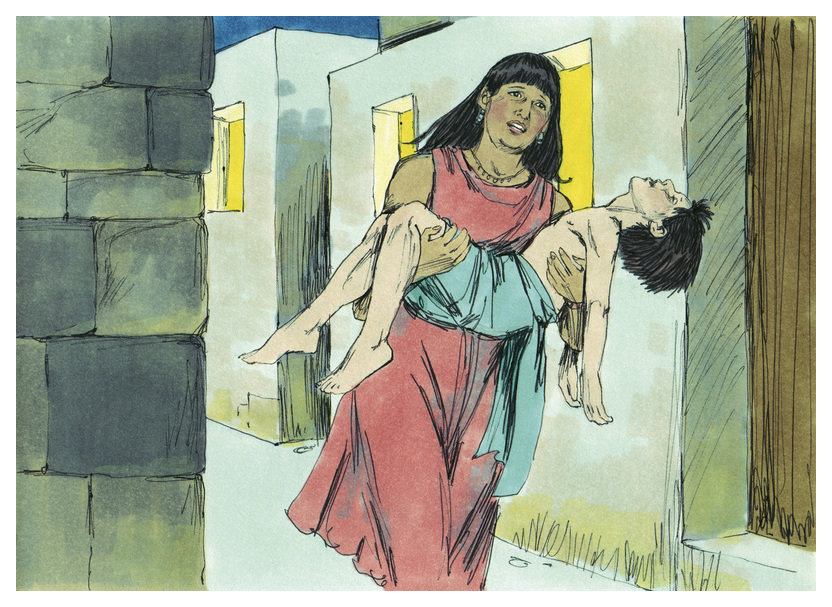 Biblical illustration of Book of Exodus Chapter 13